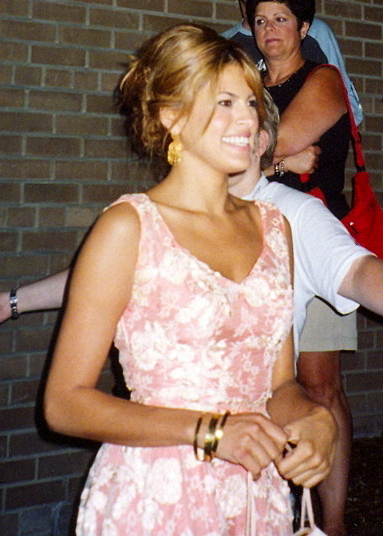 Eva Mendes at the premiere of Trust the Man, Toronto Film Festival 2005